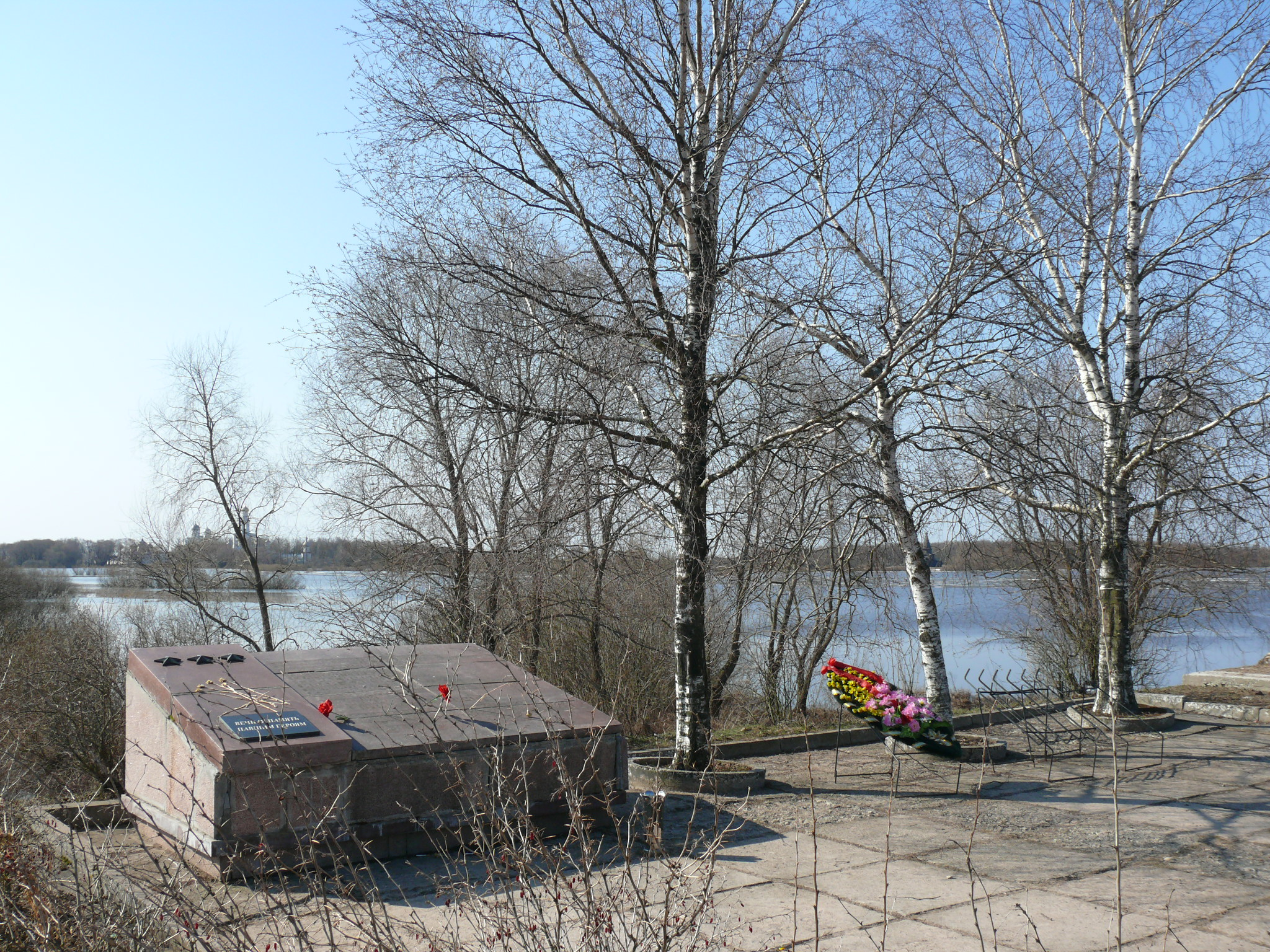 The Memorial of Gerasimenko, Krasilov, Cheremnov. Veliky Novgorod, Russia